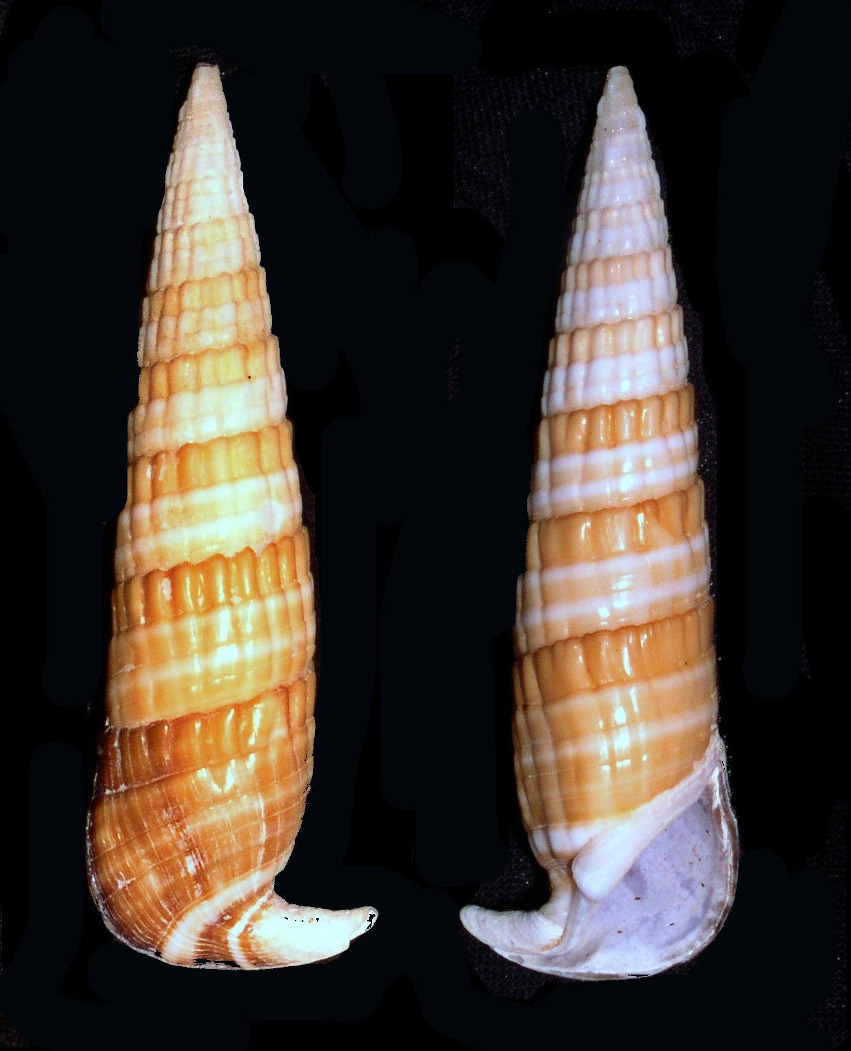 Rhinoclavis fasciata, family Cerithiidae; found in Mindanao, Philippines